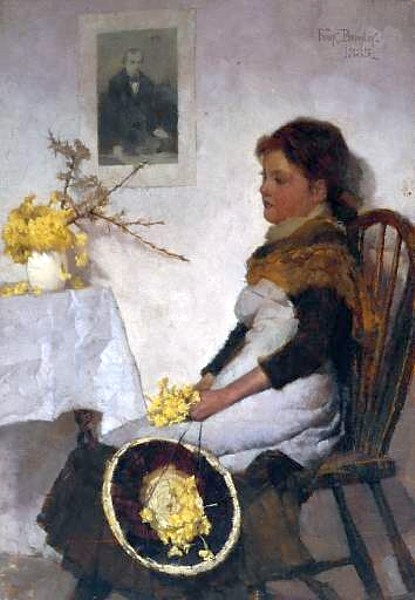 Primrose Day